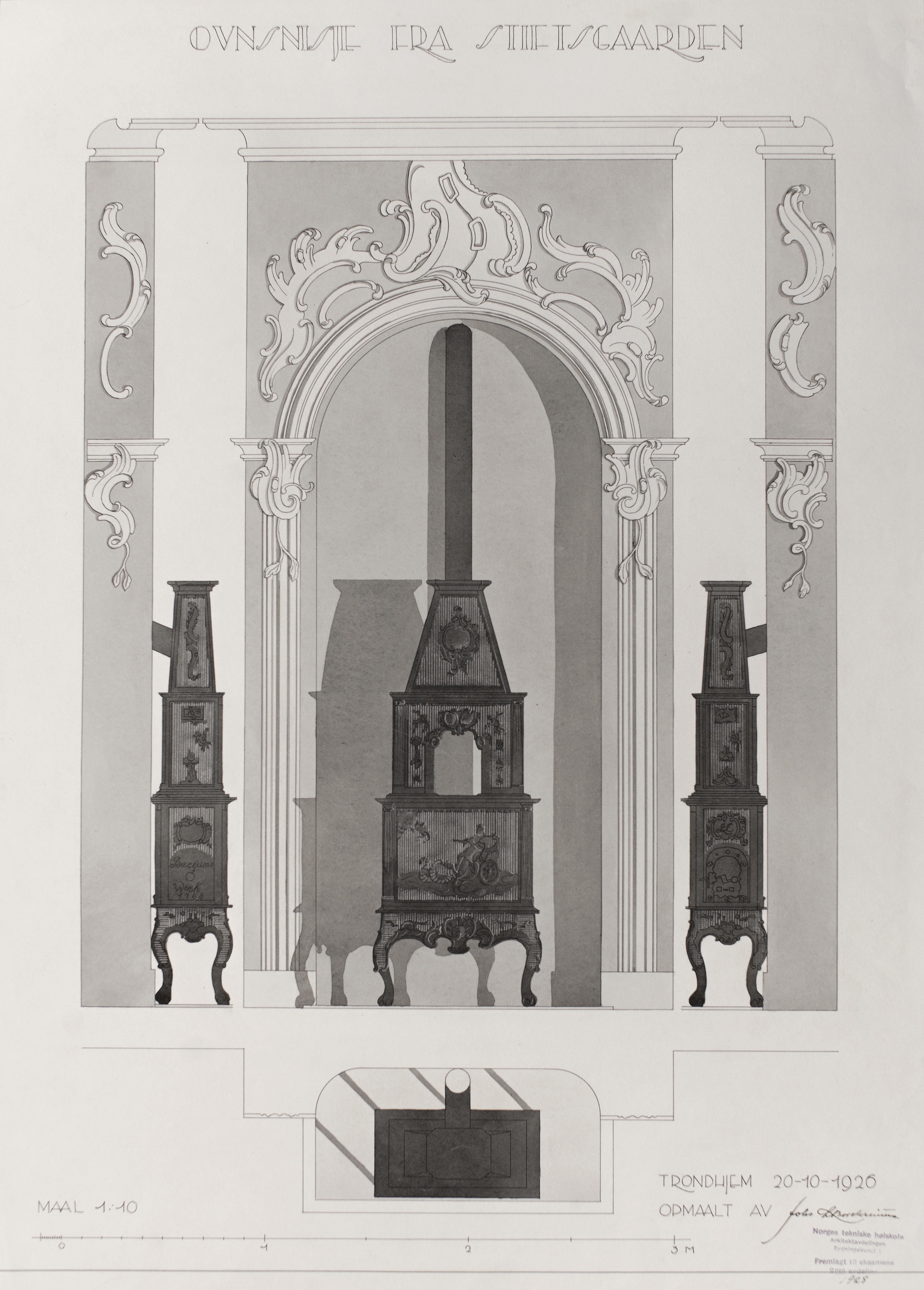 A cast iron stove from 1786 in Stiftsgården, Trondheim, Norway